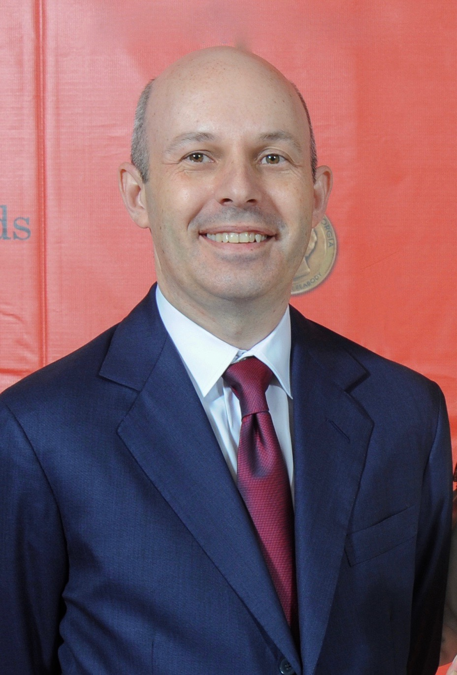 Tom Goldstein at the 72nd Annual Peabody Awards luncheon, in May 2013, held at the Waldorf-Astoria Hotel, in New York. PHOTO CREDIT: ANDERS KRUSBERG / PEABODY AWARDS